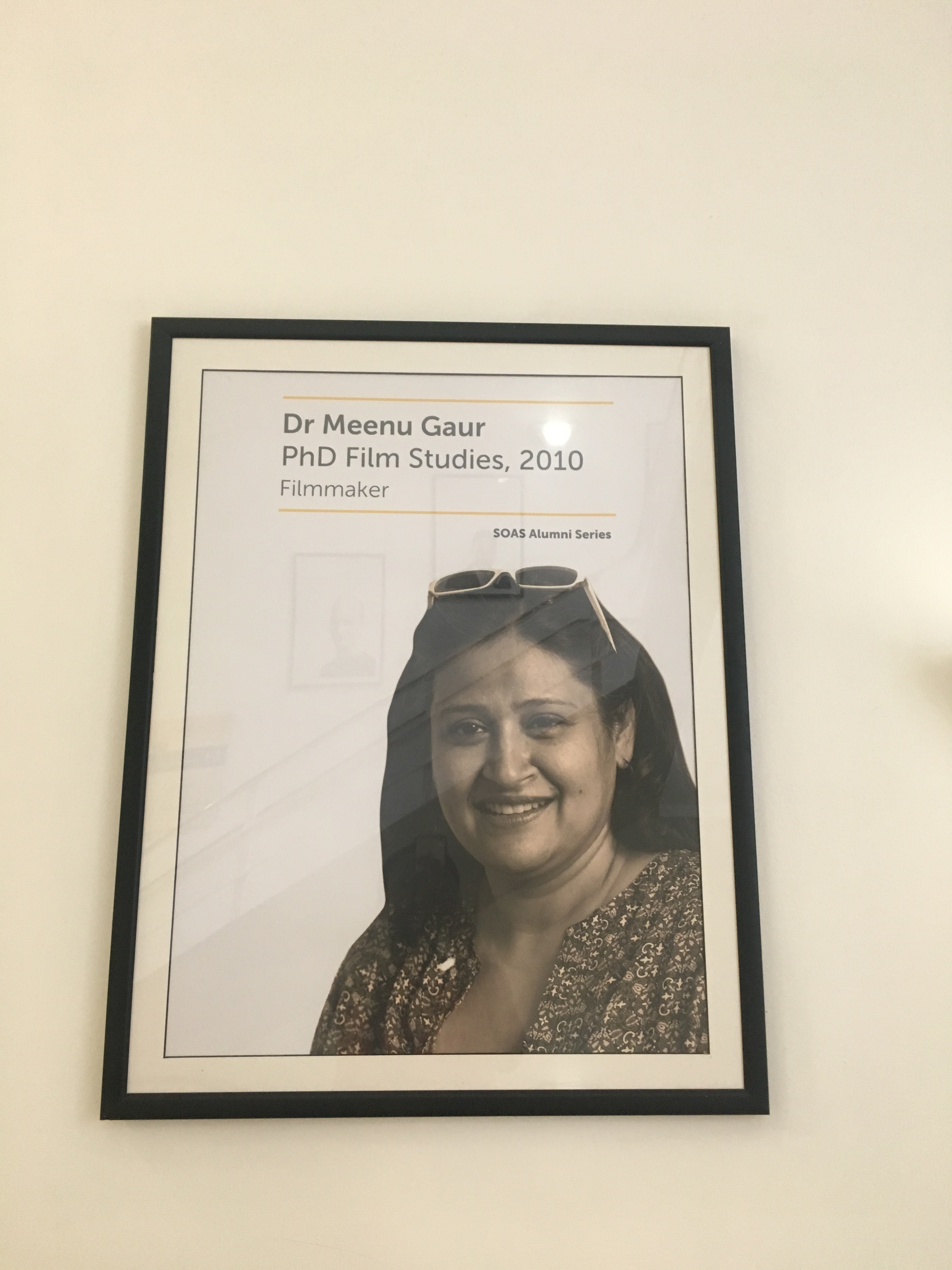 Portrait of Dr. Meenu Gaur as part of SOAS, University of London Alumna Series that celebrates "notable alumni who have had admirable careers"